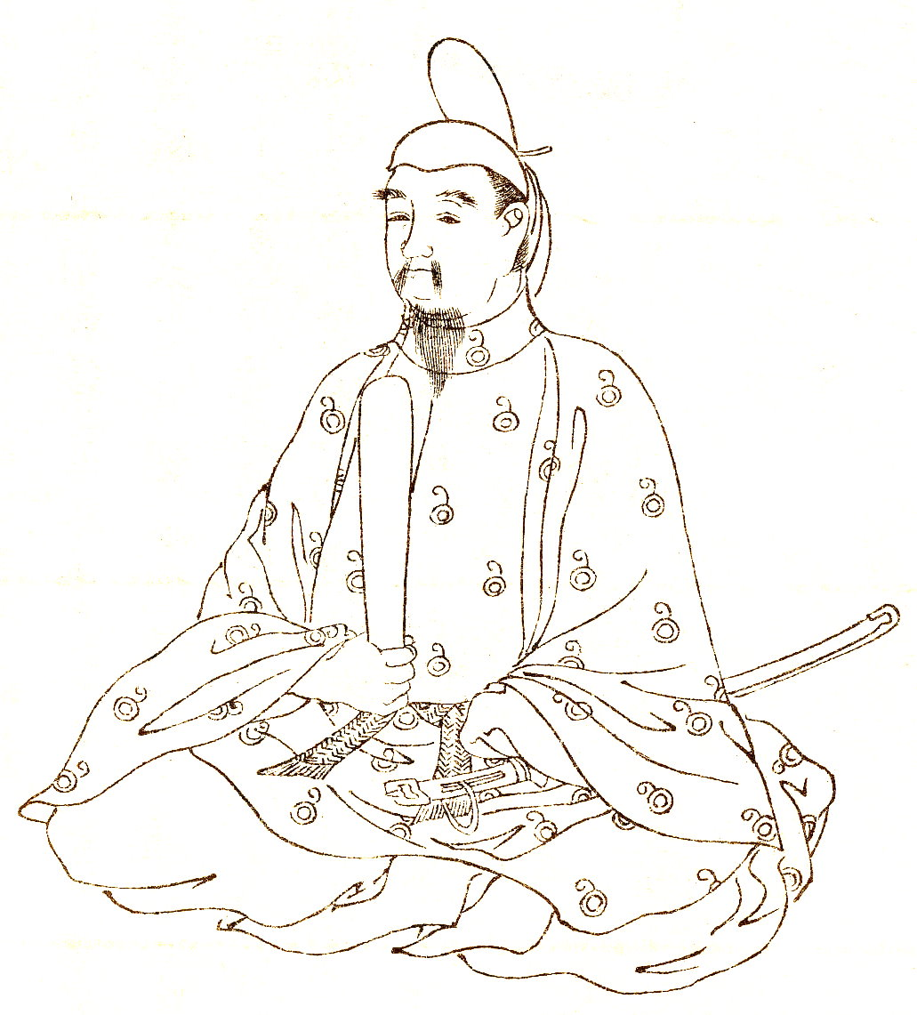 Fujiwara no Toyonari(藤原豊成) was a Japanese court noble in Nara period.